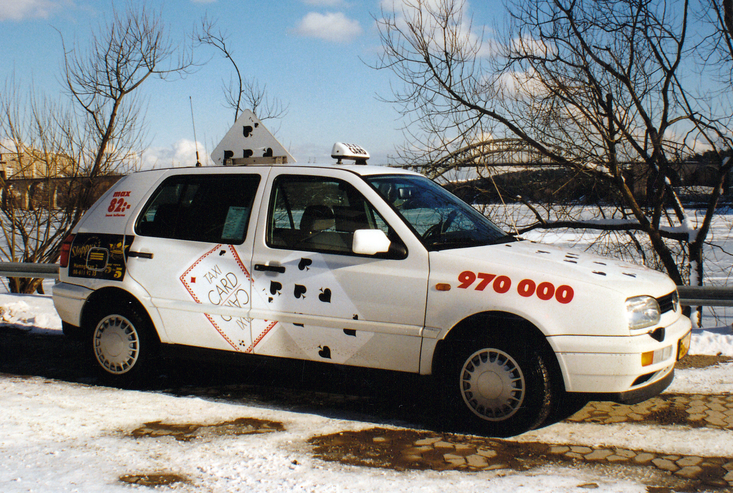 TaxiCard-bil